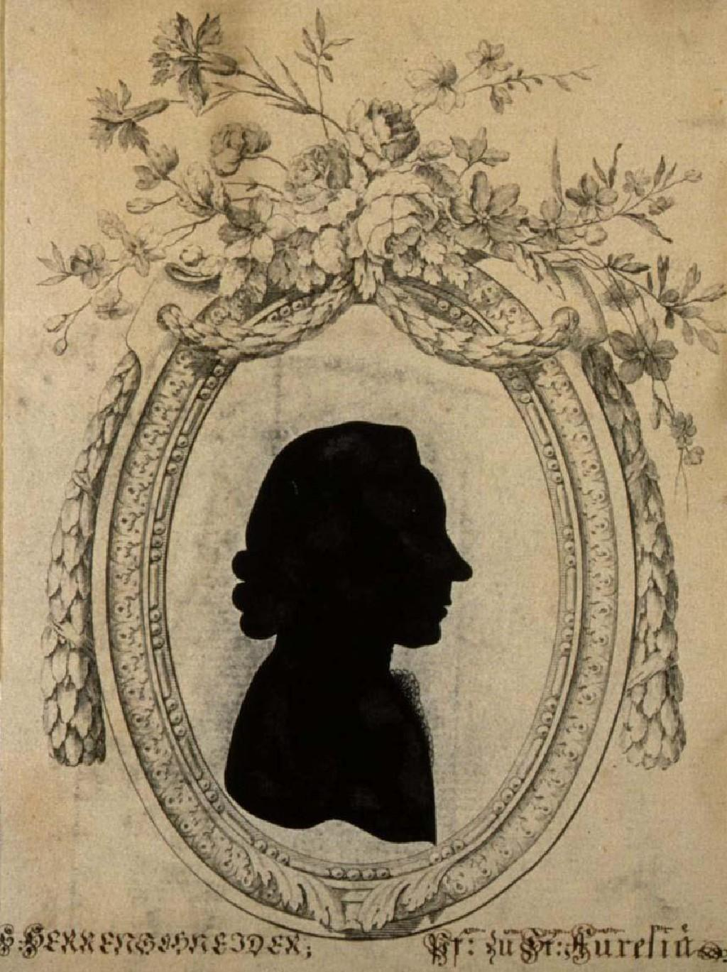 Silhouette of Johannes Herrenschneider (1723-1802)